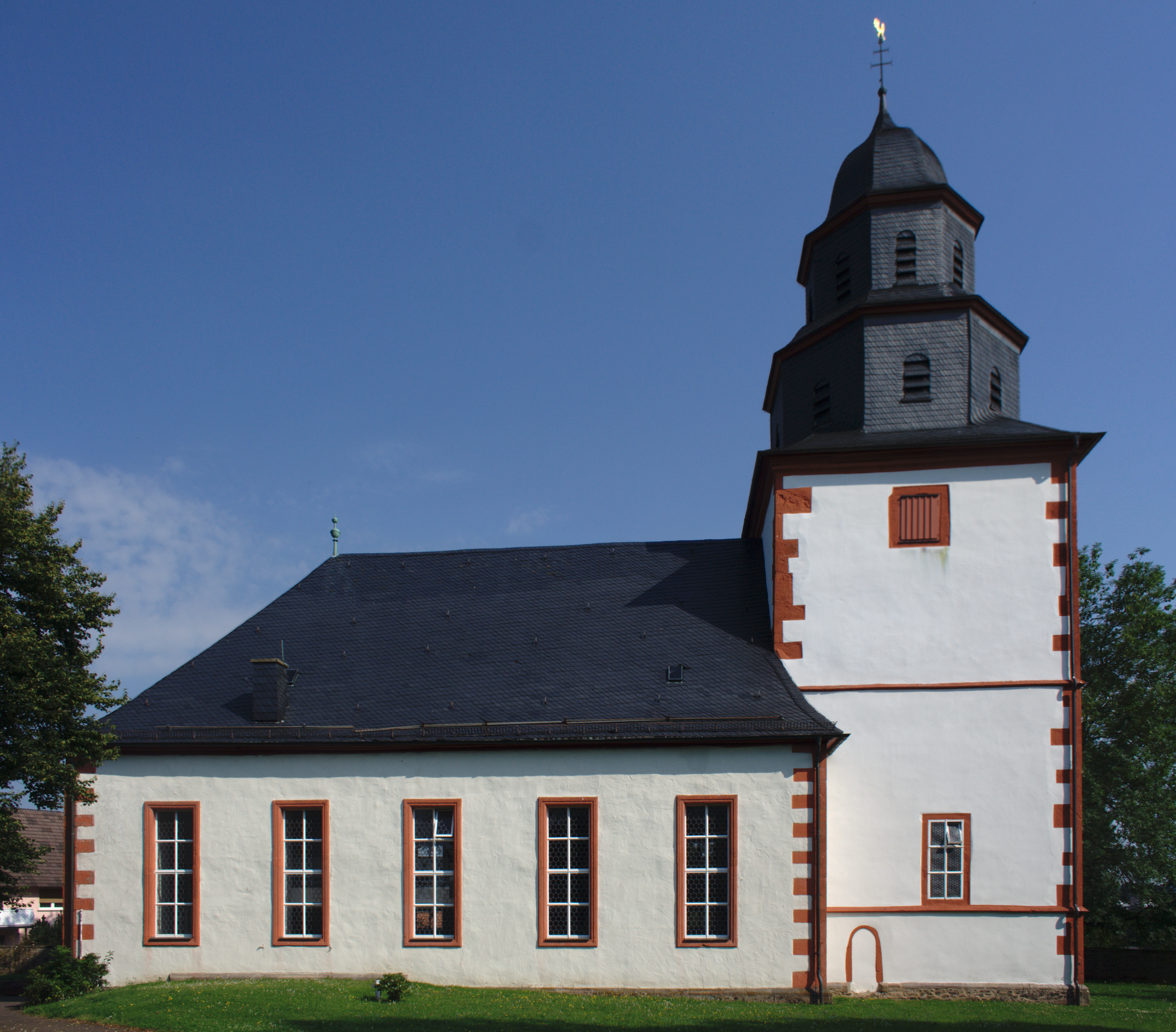 Church in Freiensteinau / Vogelsberg / Hesse / Germany